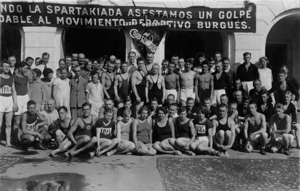 Finnish athletes of the sports club Jyry Helsinki in the 1928 Moscow Spartakiad, including soccer players, wrestlers, runners, gymnasts and boxers.